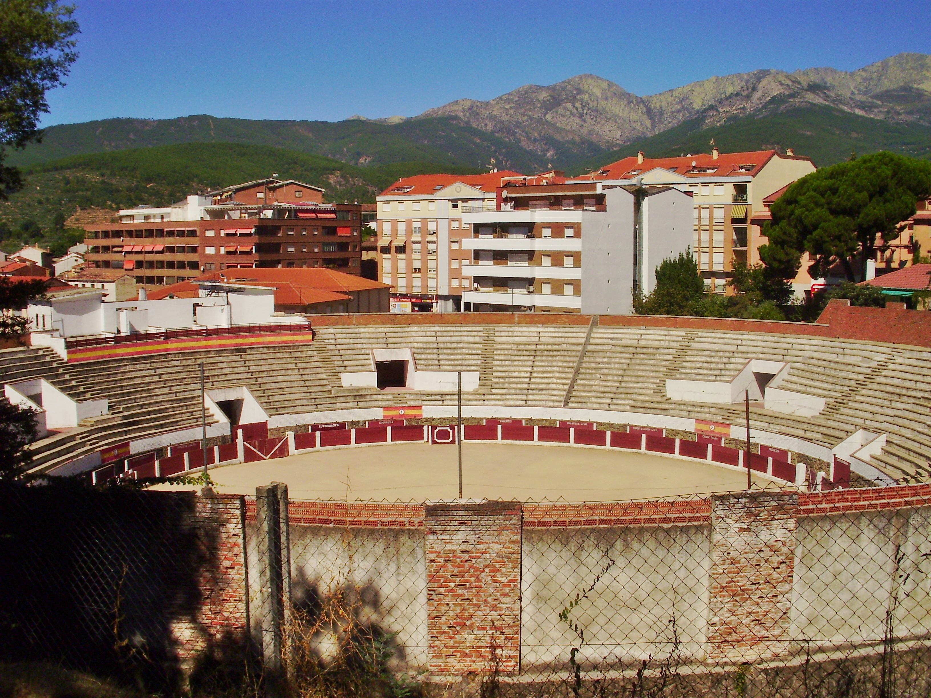 View of the bullring of Arenas de San Pedro